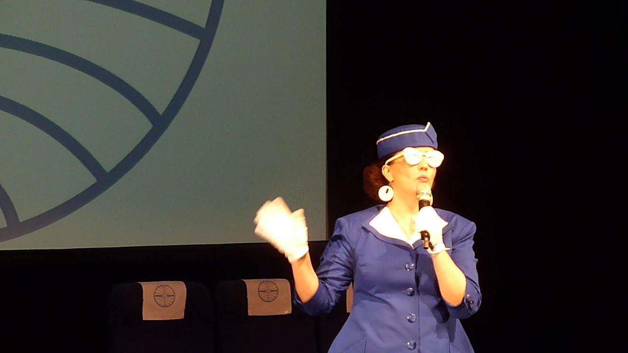 Pam Ann, Tel Aviv Show